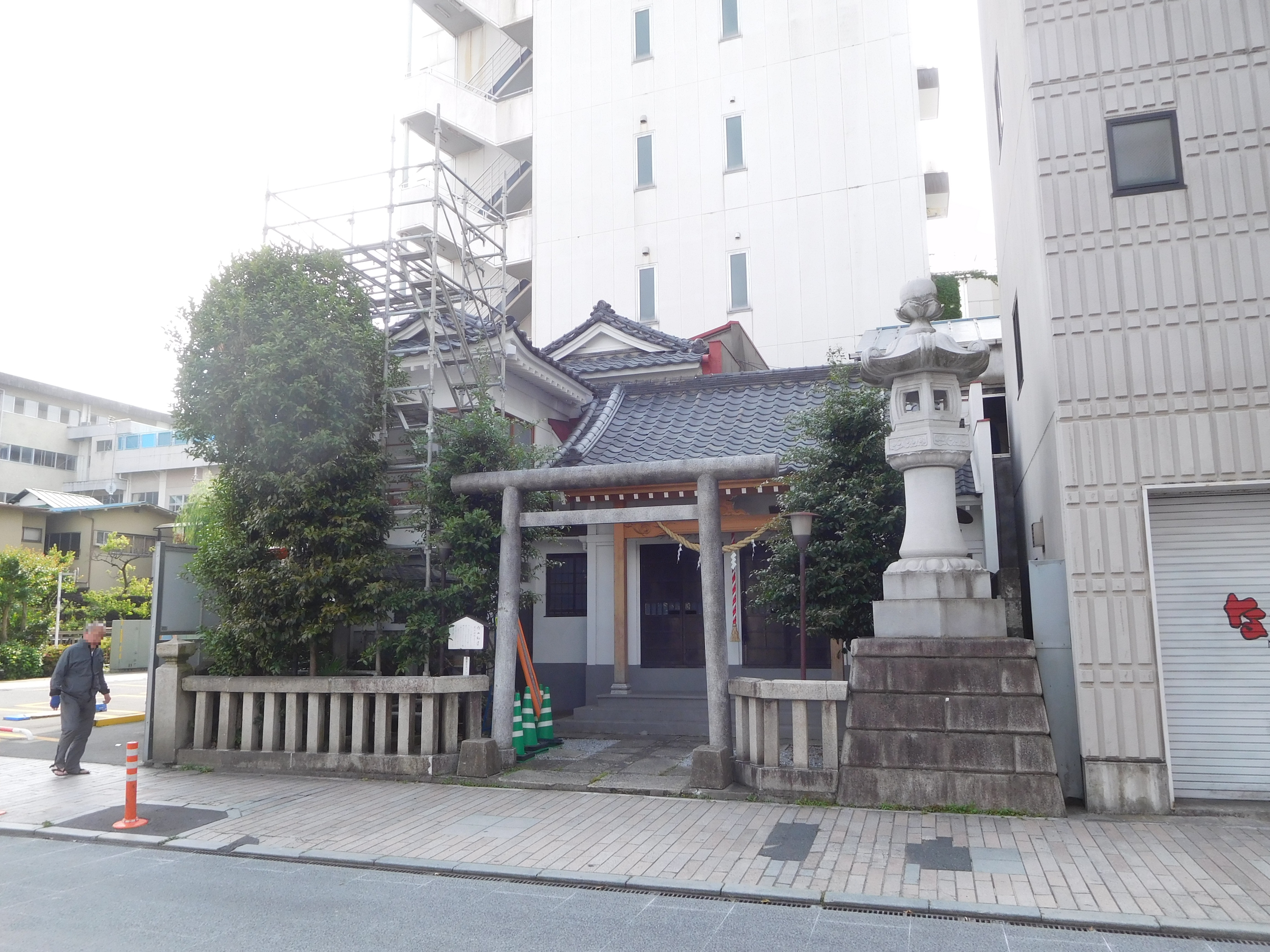 This is Mihashi Konpira Shrine in Utsunomiya, Tochigi, Japan.